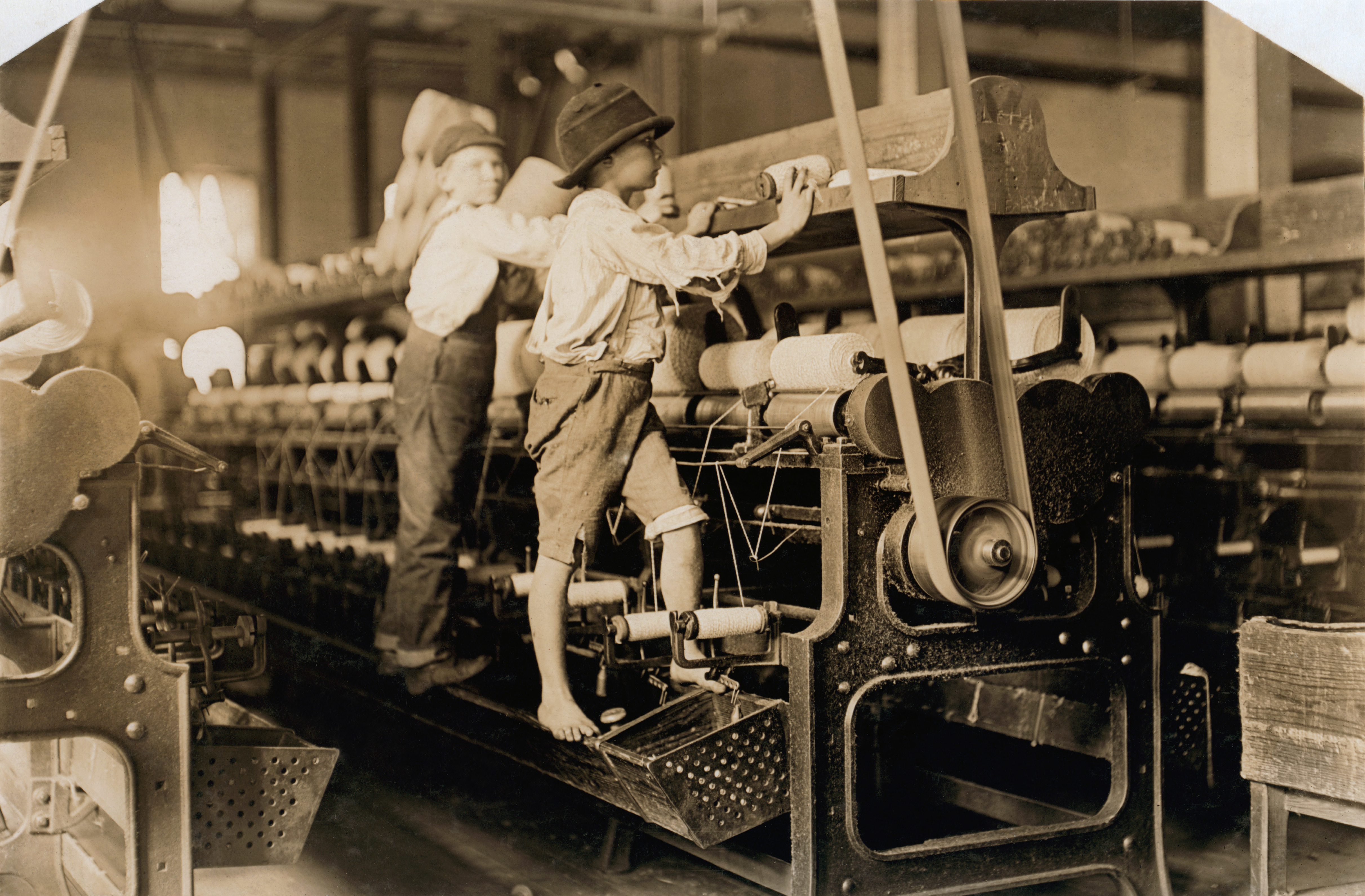 Children working in a mill in Macon, Georgia.